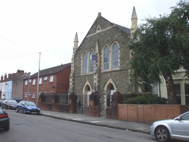 Mosque, Severn Rd, Cardiff